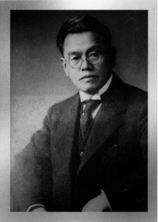 Akira Fujinami